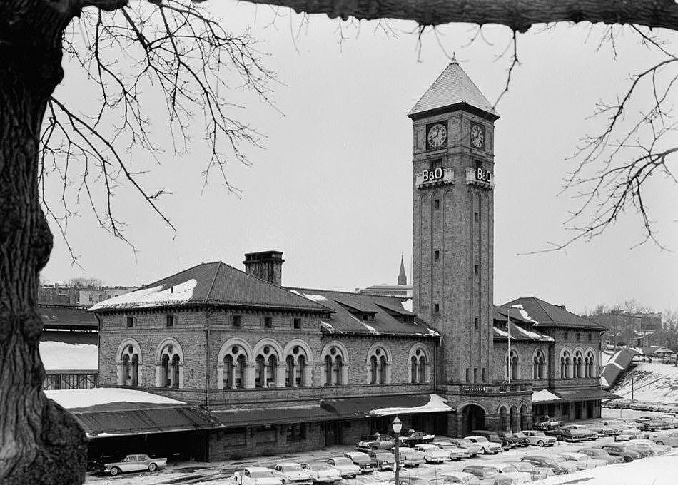 Exterior view of Mount Royal Station in Baltimore, Maryland, U.S. Built in 1896 by the Baltimore and Ohio Railroad (B&O). The B&O ceased passenger train service at the station in 1961. The building is now used as part of the Maryland Institute College of Art. Image courtesy of the federal HABS—Historic American Buildings Survey of Maryland.